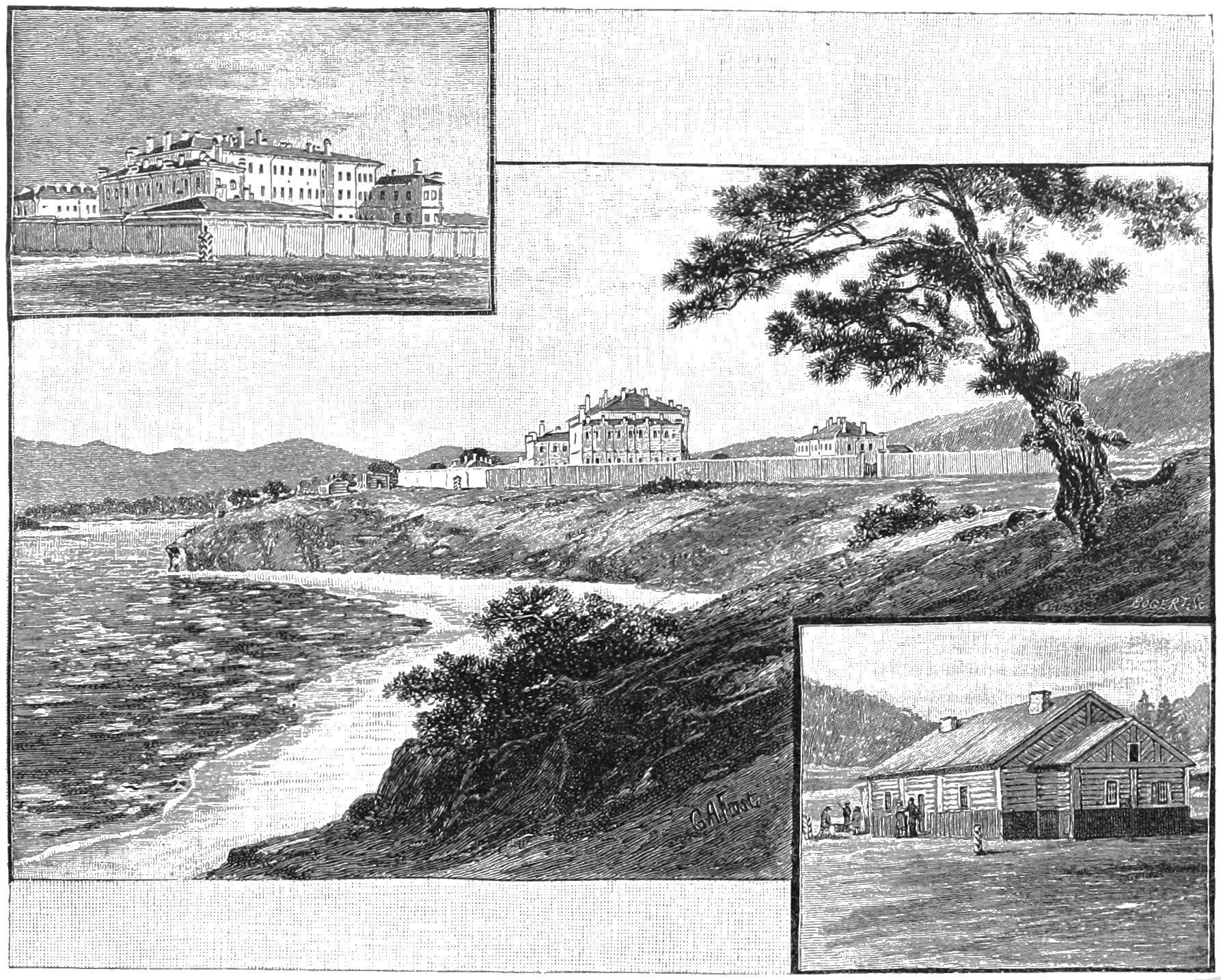 Two views of the new Verkhni Udinsk prison and a Trans-Baikal etape